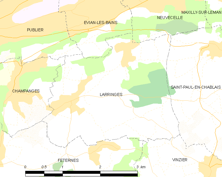 Map of French municipality Larringes